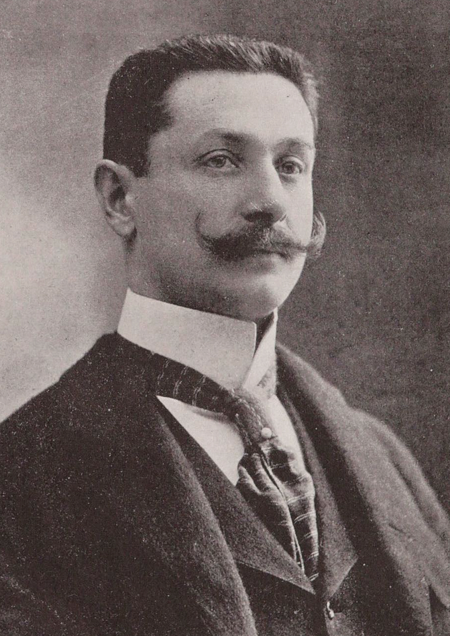 A photo portrait of sound recording entrepreneur Gianni Bettini, from The Phonoscope June 1898.